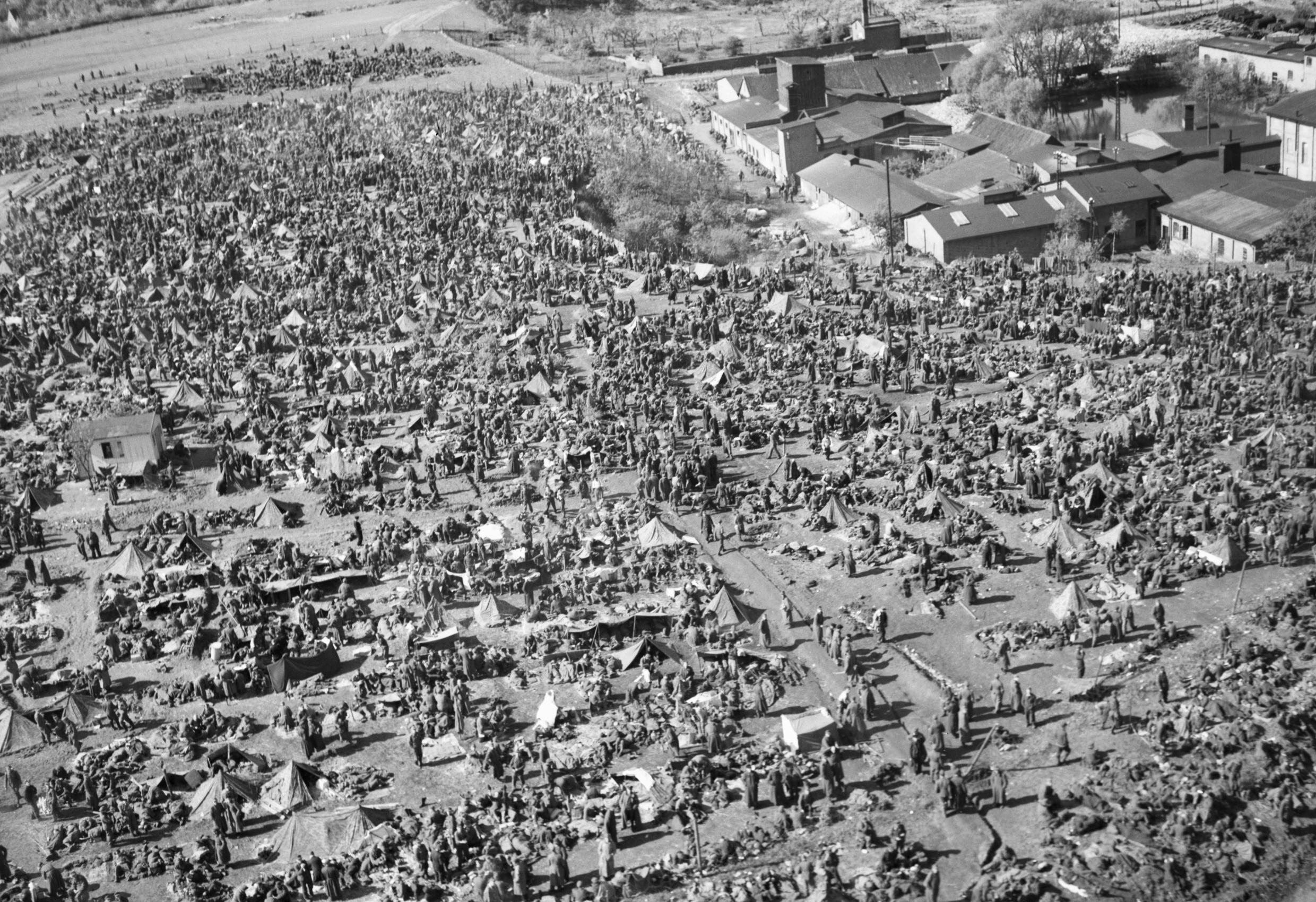 Germany Under Allied Occupation Aerial view of the prisoner of war compound at Hamburg packed with surrendered German troops.